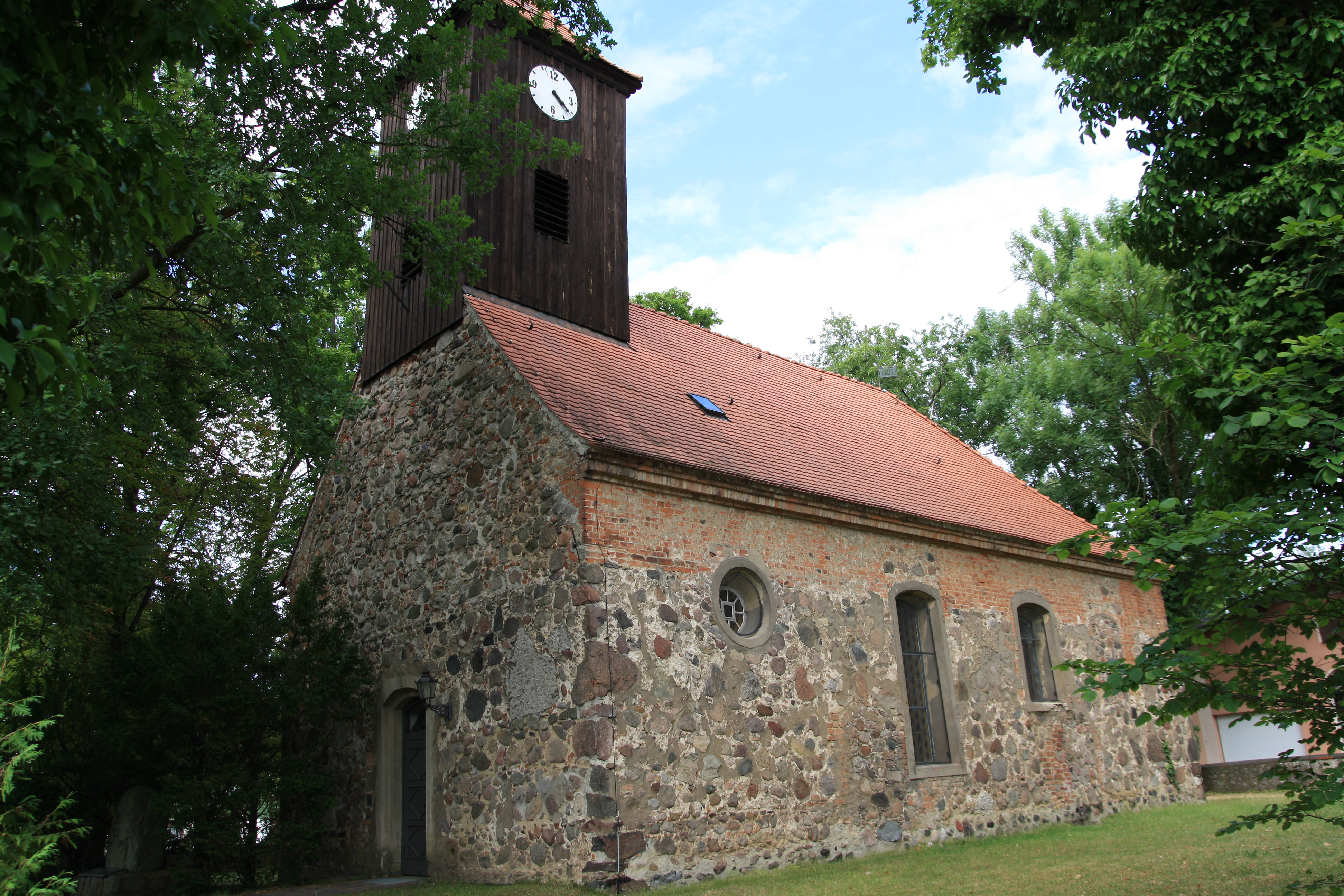 Village church in Miersdorf, Zeuthen.